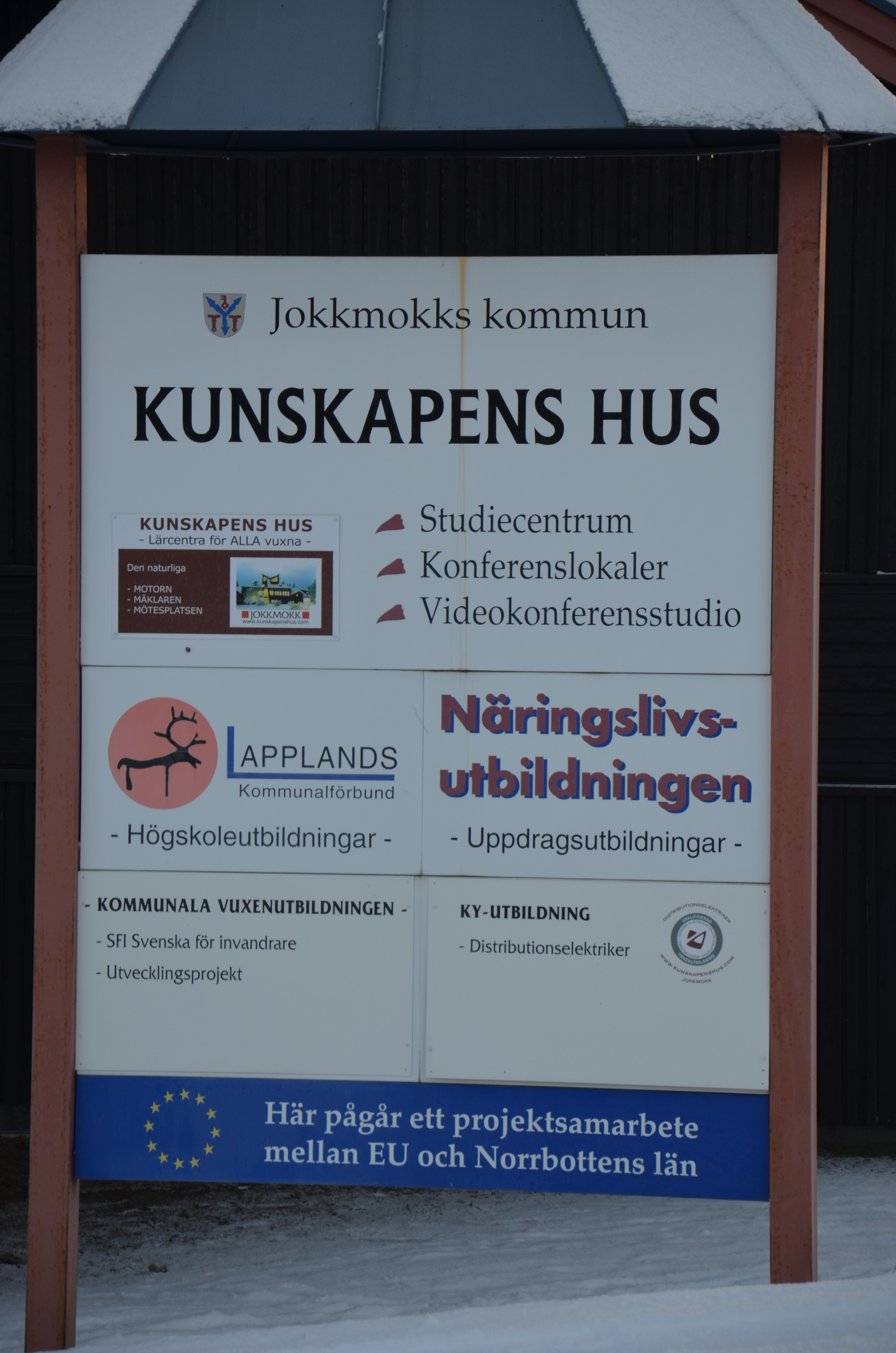 Informationsskylt om utbildningar utanför Kunskapens hus i Jokkmokk